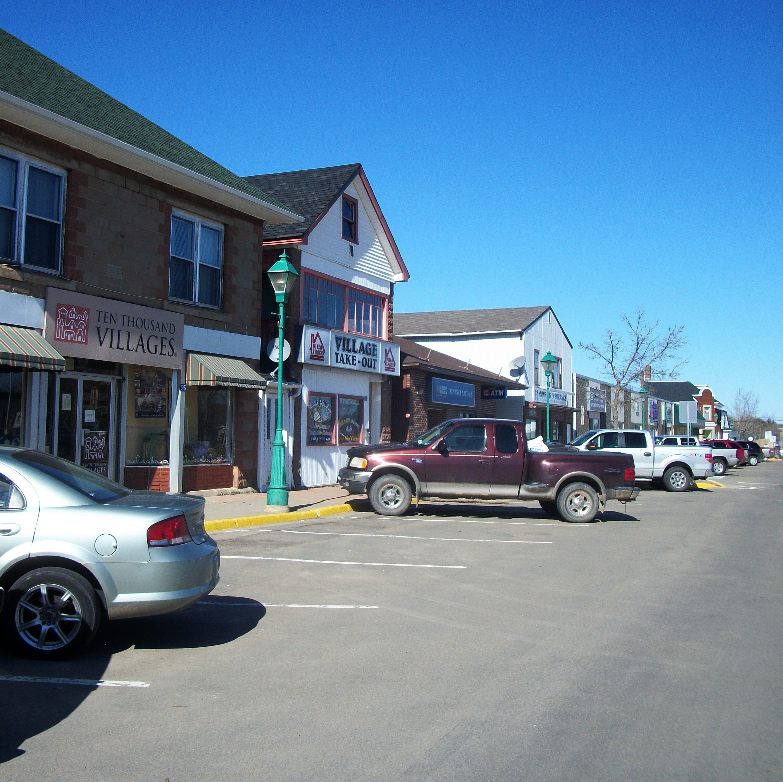 Street scape in the village of Petitcodiac, New Brunswick